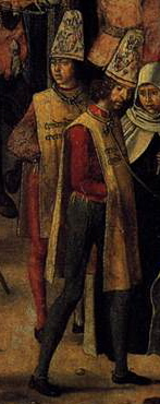 Saint Dominic presiding over an Auto-da-fe. From the sacristy of the Santo Tomás church in Ávila.